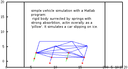 Simplest vechile simulation with a Matlab program. The author of the very CTruck3D truck simulator series made a Matlab implementation of the bare minimim to illustrate how it works. It's on SourceForge